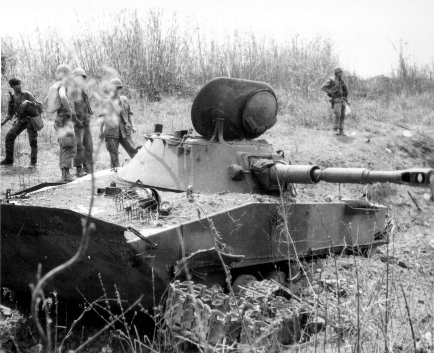 Russian made PT76 tank destroyed at Ben Het. - Vietnam 1968